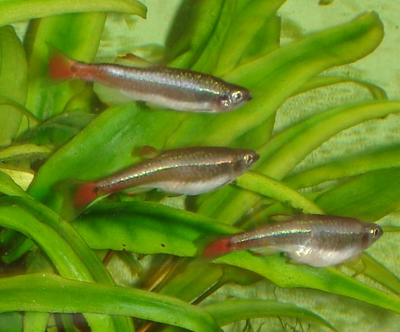 Tanichthys albonubes